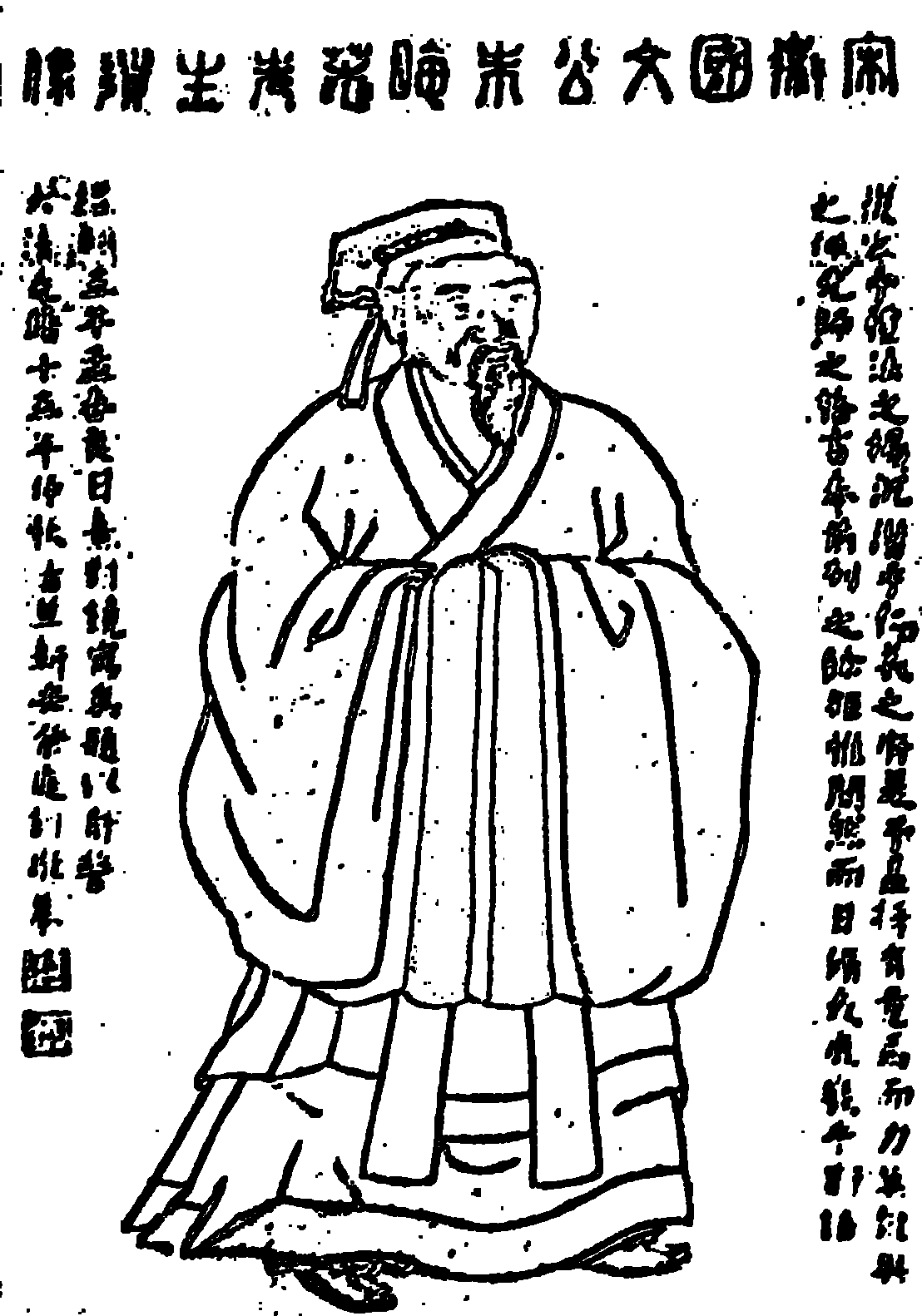 Zhu Xi or Chu Hsi (1130–1200) was a Song Dynasty Confucian scholar